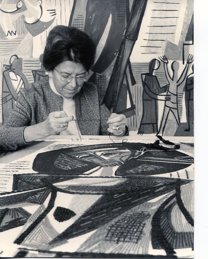 Het borduurwerk onder handen is van ontwerper Wim van Woerkom. (foto Jan van Teeffelen, ca. 1955).